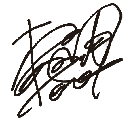 Tomomi Itano Signature Official